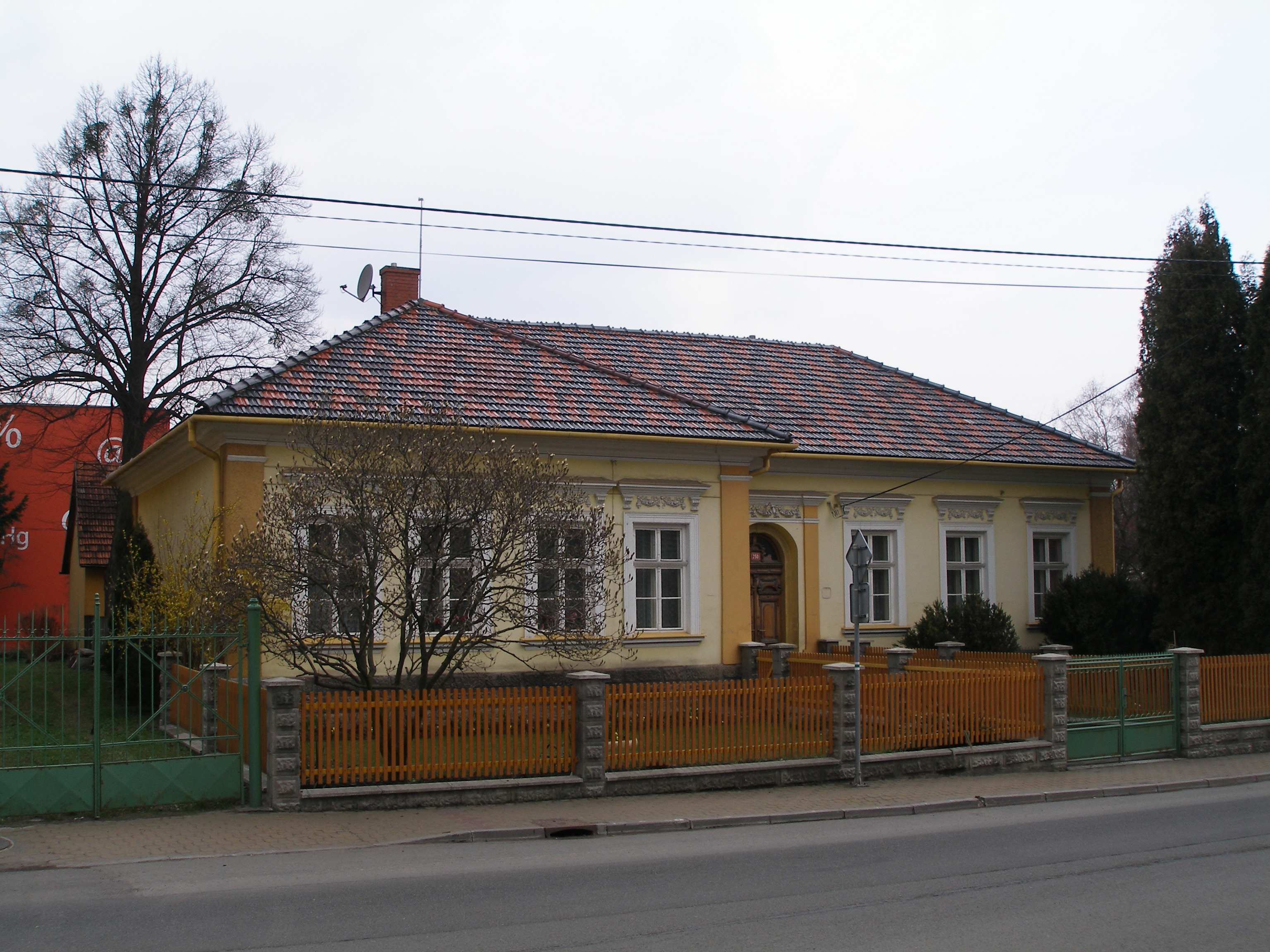 Catholic rectory in Mořkov.